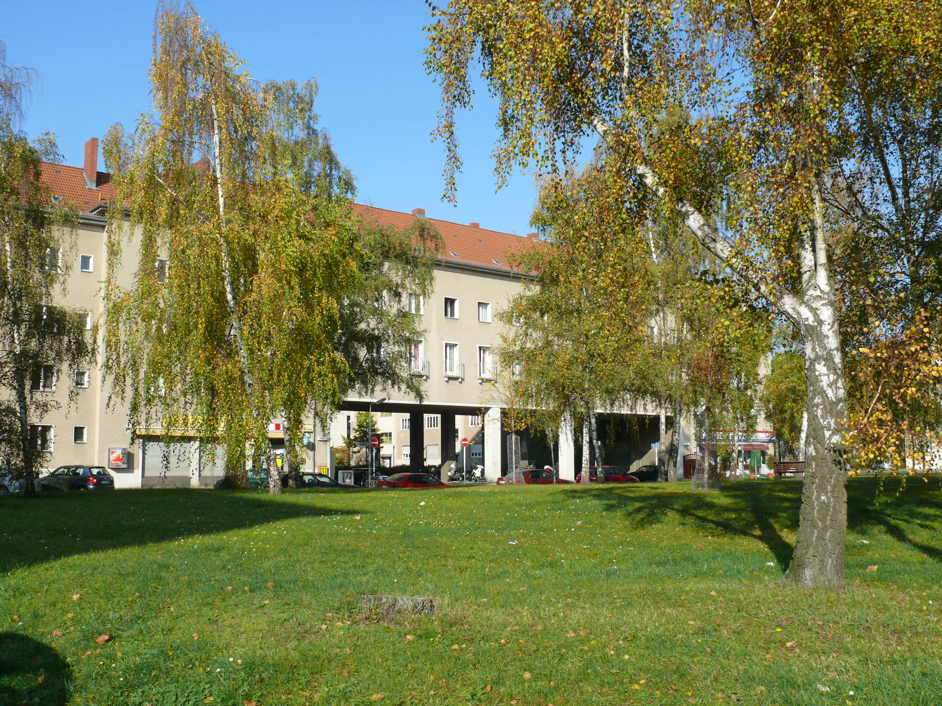 Berlin-Wedding Nachtigalplatz